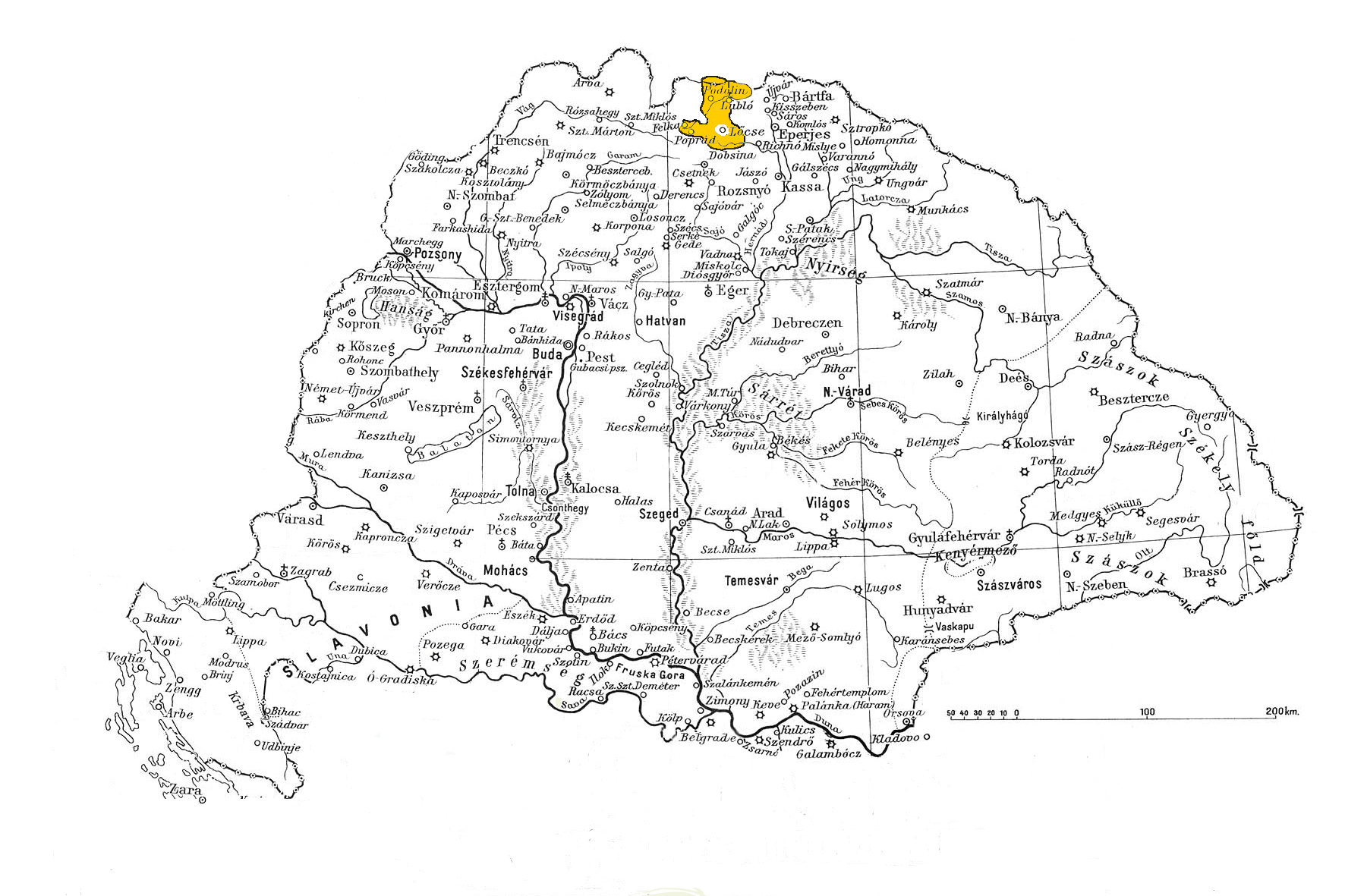 Spiš mortages in Hungary to Poland (1412-1772) [marked in yellow]